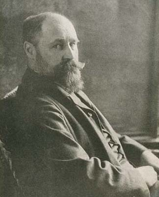 Photo of Swedish painter Nils Kreuger